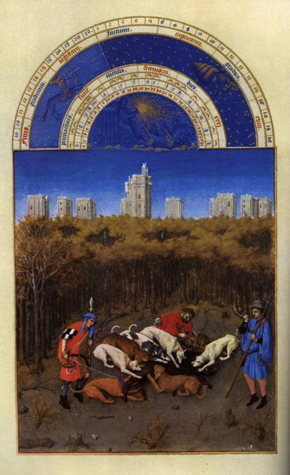 Boarhunting from Les très riches heures du Duc de Berry, December detail from the Très Riches Heures Musée Condé, MS 65 F12v.